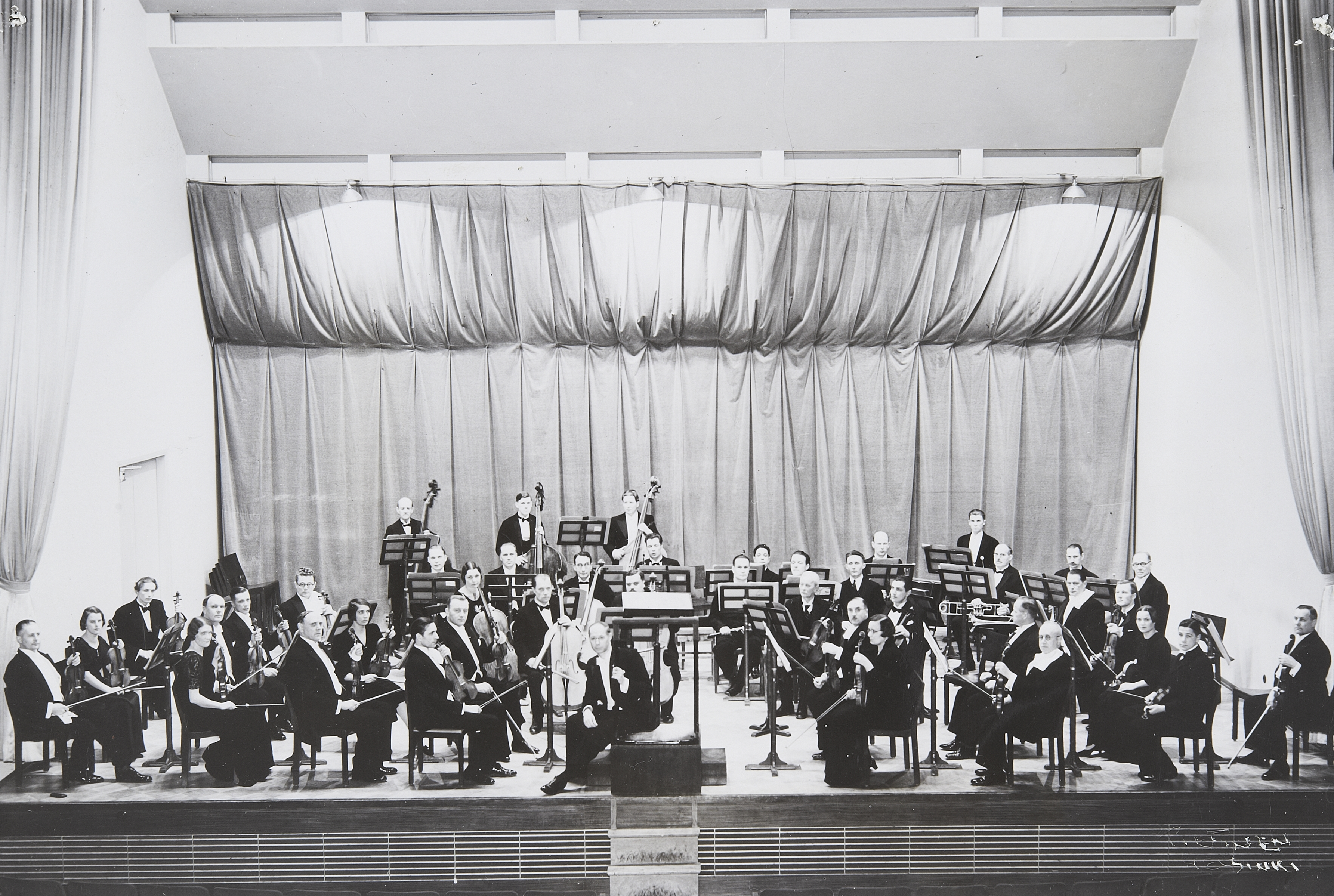 Photograph of Helsingin Orkesteriyhdistys (Helsingfors Orkesterförening) amateur symphony orchestra in the concert hall of Helsinki conservatoire. Conductor Nikolai van der Pals sitting.